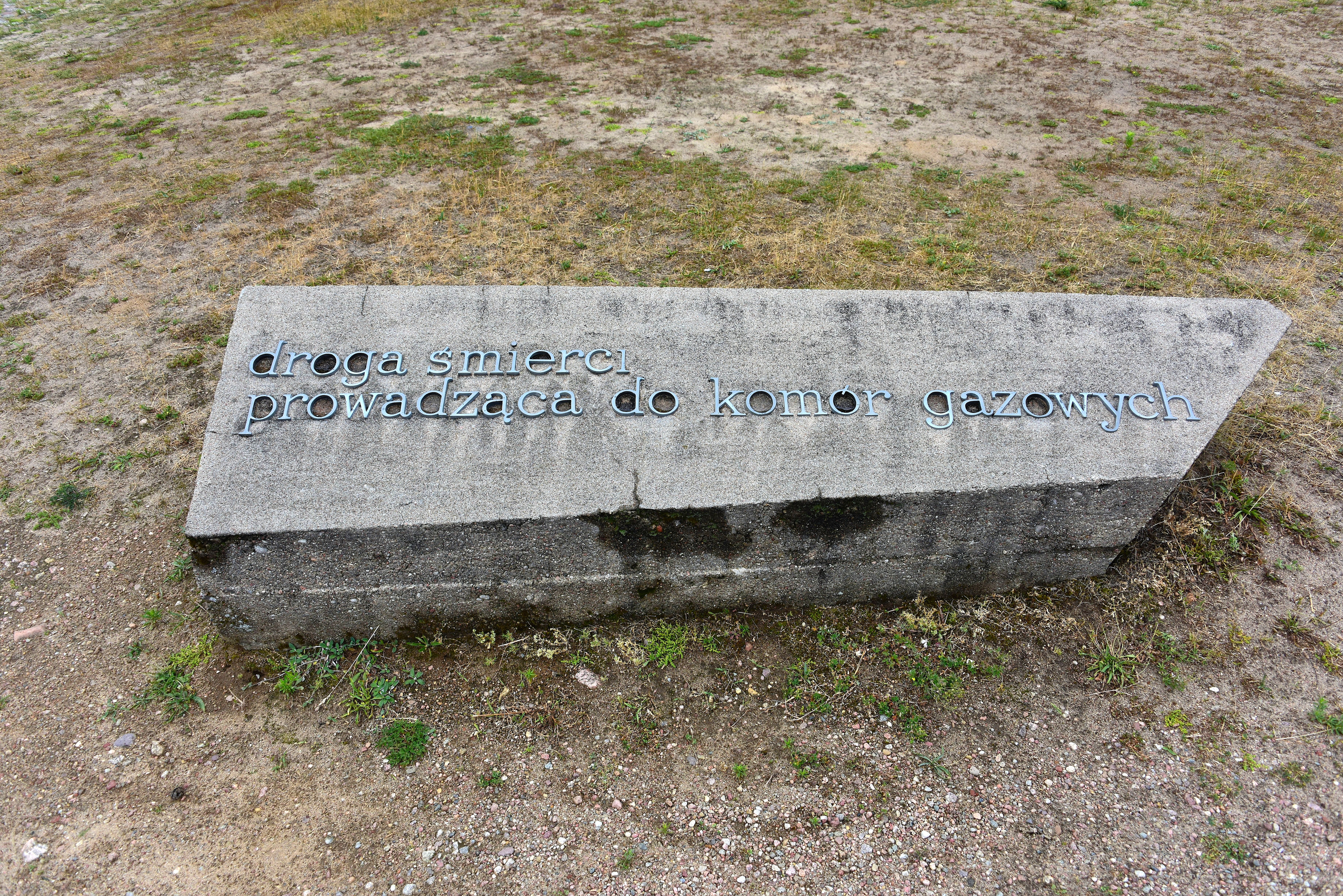 Site of the former Treblinka II death camp